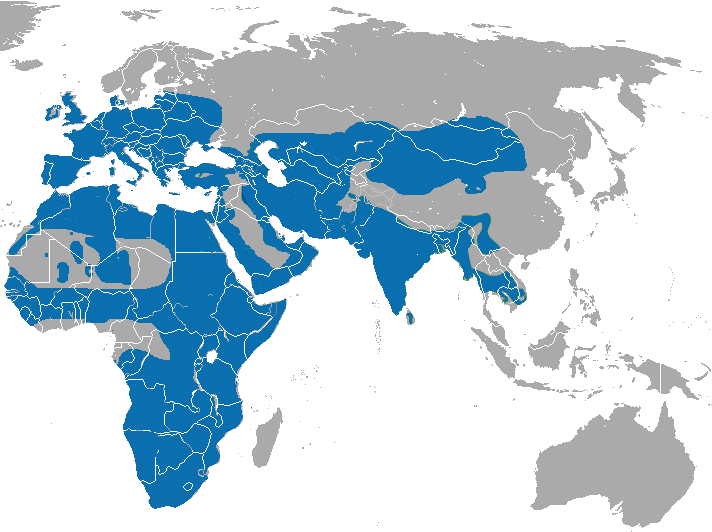 Derived from specific maps.